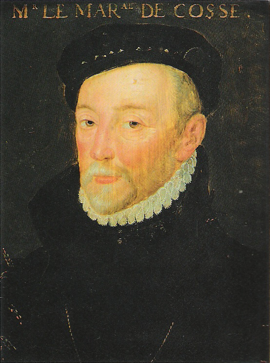 Portrait of Artus-Cosse-Brissac